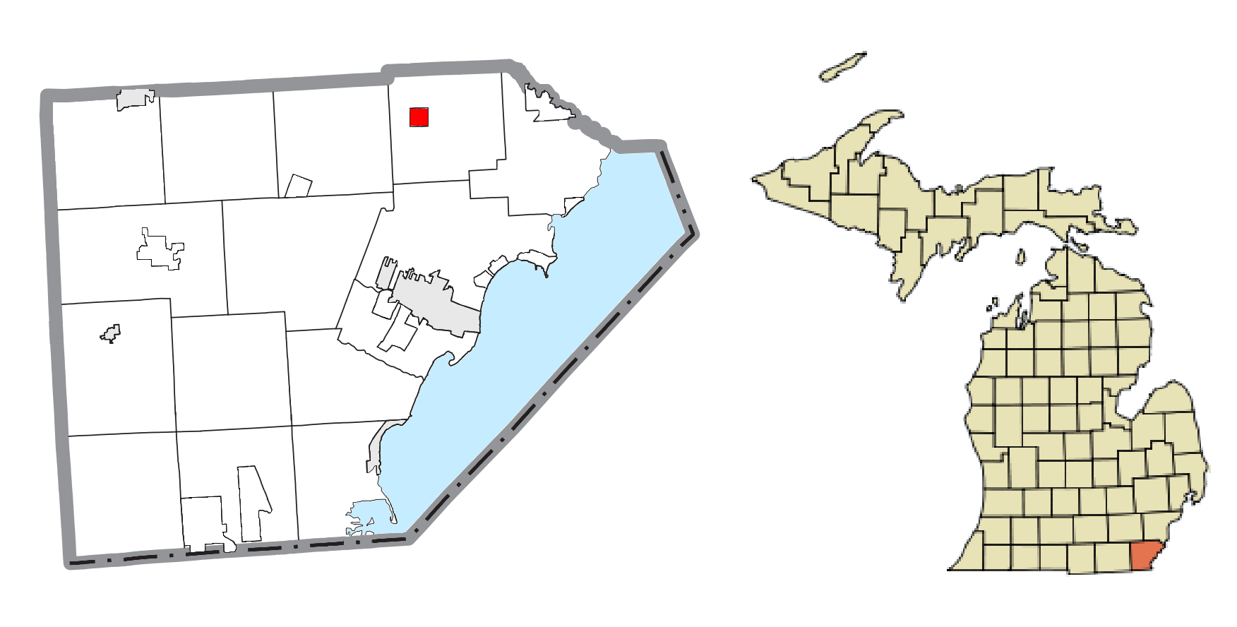 Carleton, MI